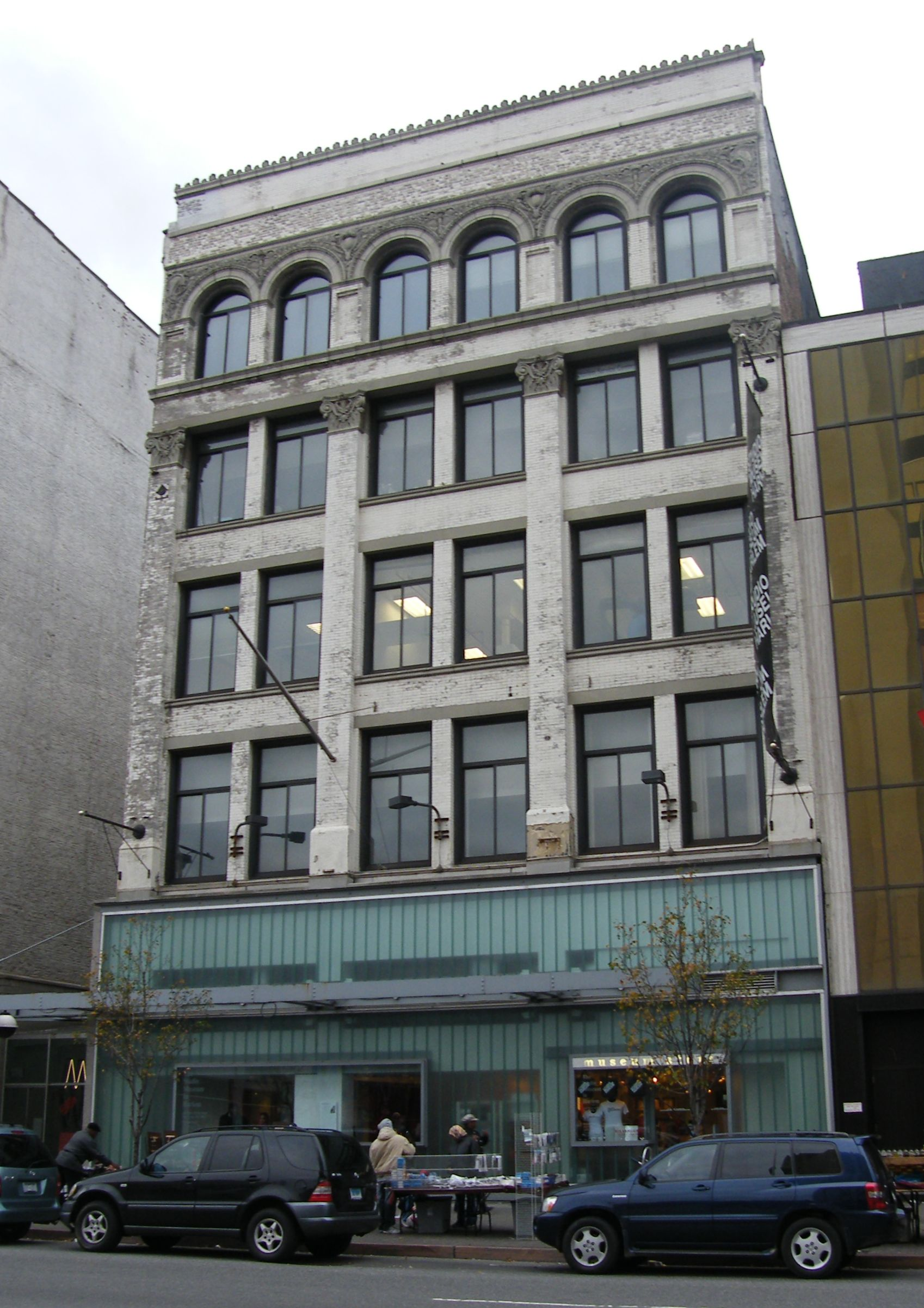 Studio in Harlem